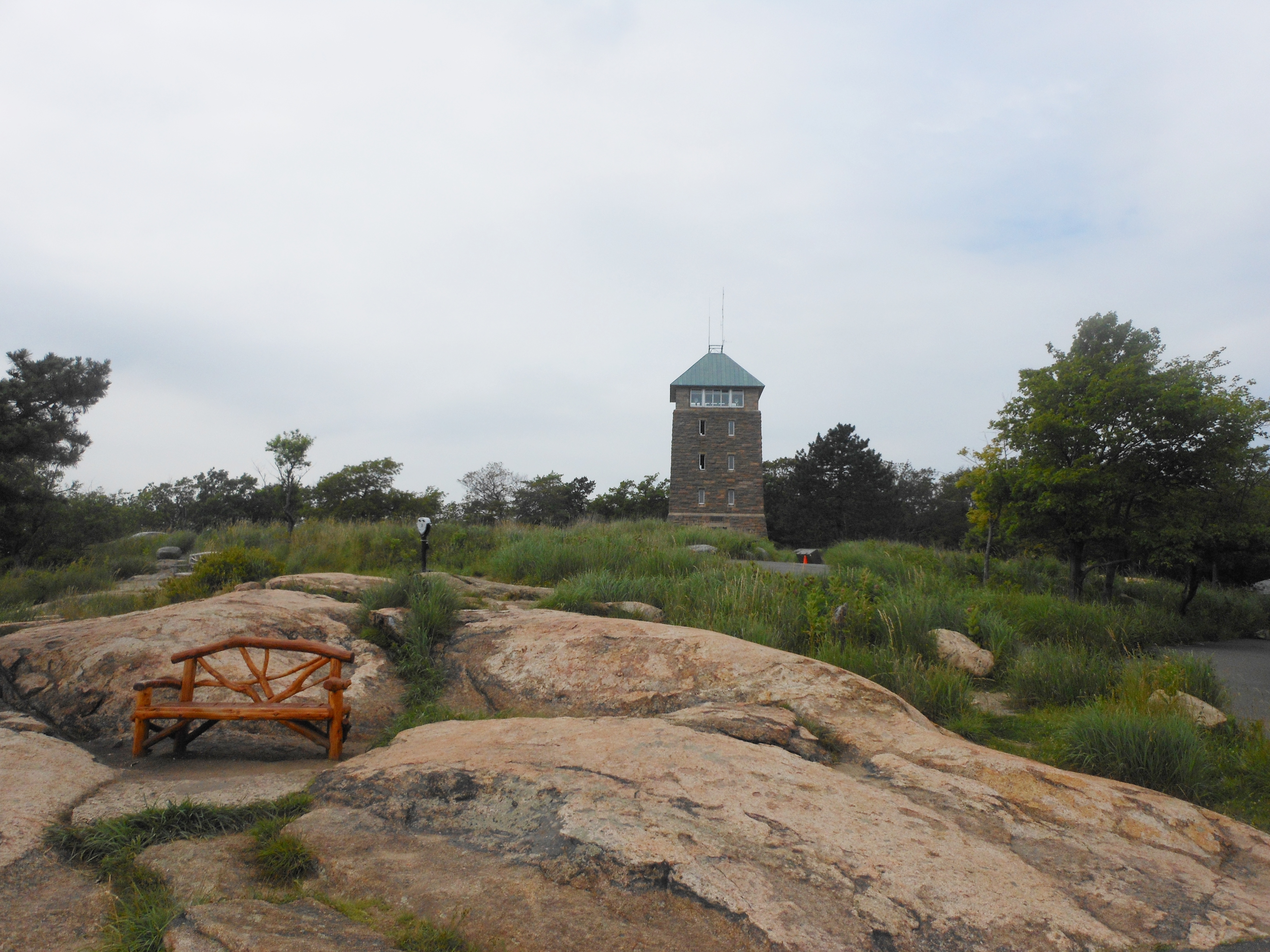 Peak of Bear Mountain, New York